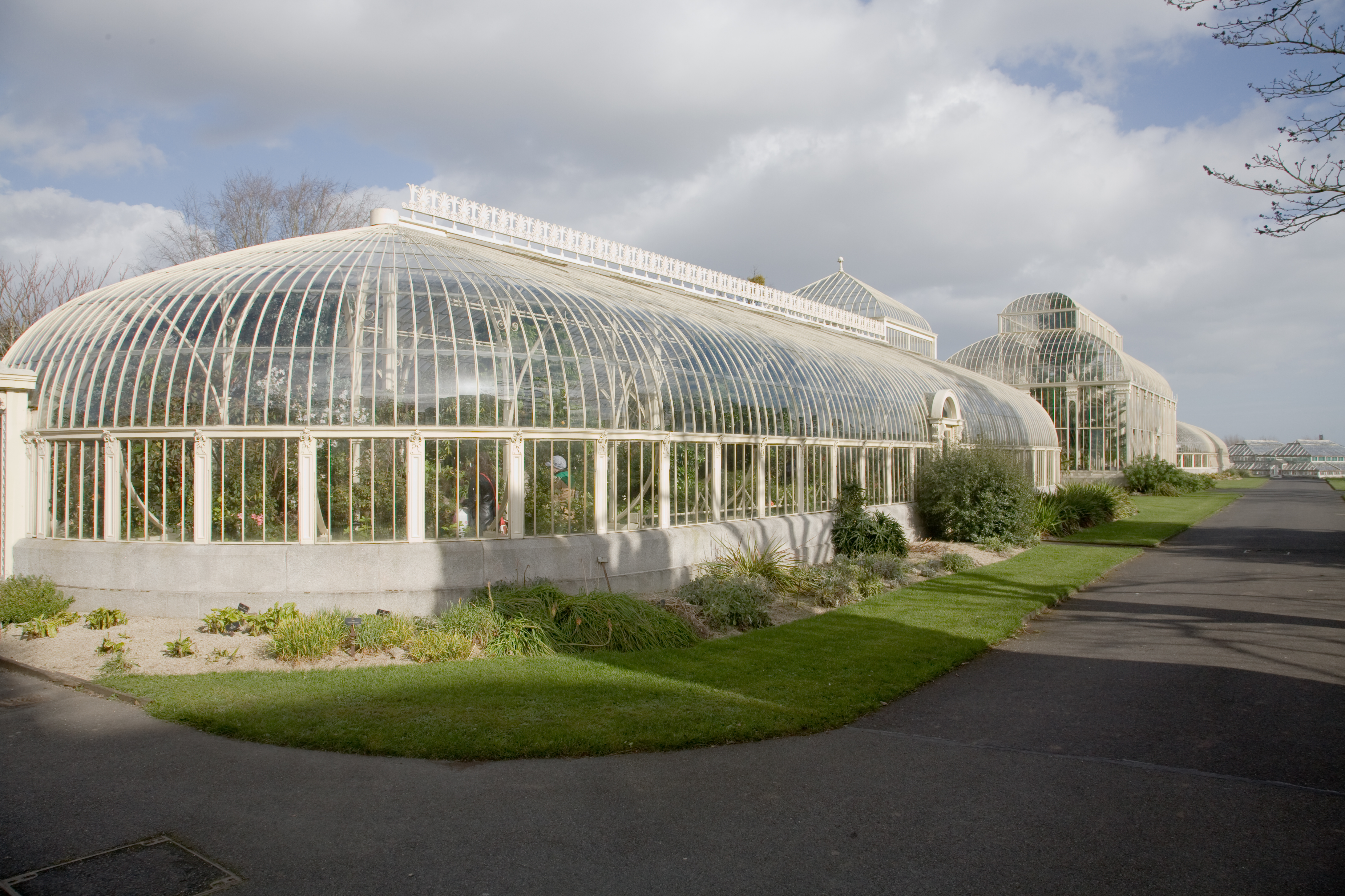 The Irish National Botanic Gardens, Glasnevin, Dublin, Ireland. The Curvilinear Range of Glasshouses at the national Botanic Gardens were constructed between 1843 and 1869 and designed by native Dubliner Richard Turner. He was also responsible for designing the Glasshouse at Kew Gardens (England) and Belfast (N. Ireland) but both of these have been 'restored' with the use of steel. The Curvilinear Range was restored in 1995 with repairs carried out in the original wrought iron. Internally the houses feel amazingly light and even though, slim and elegant, much of the structure had decorative elements.